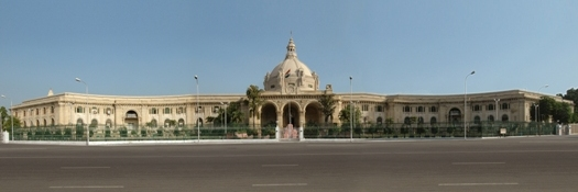 Vidhan Sabha, Lucknow, Uttar Pradesh, India